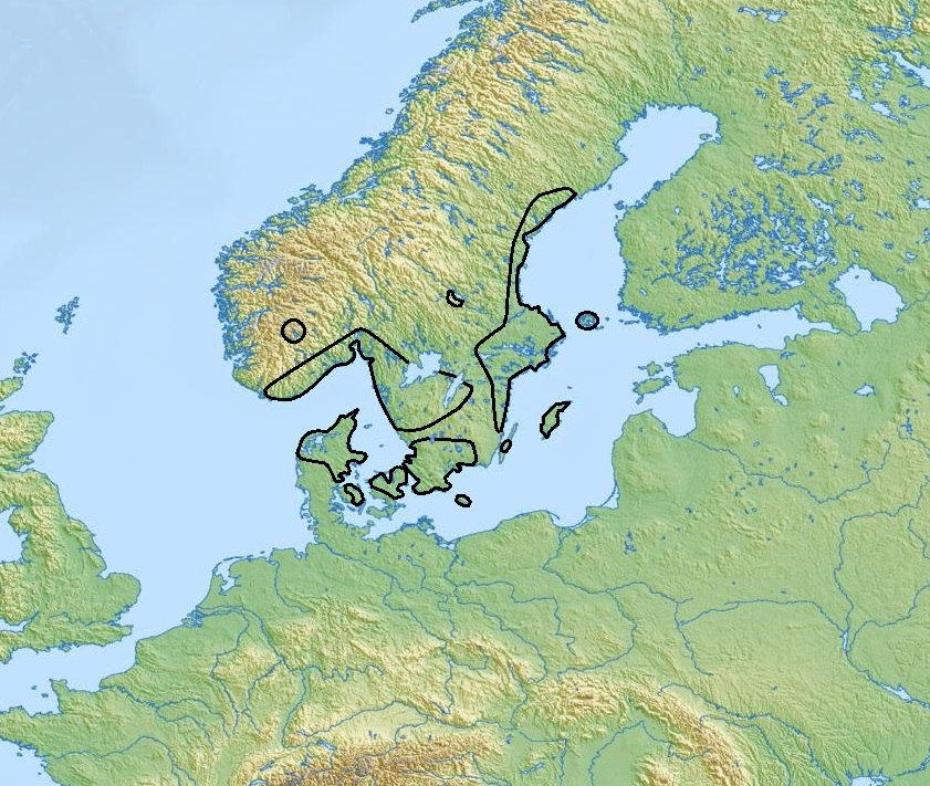 Map of the Pitted Ware culture, based on a earlier published in (March 18, 2019). "Maritime Hunter-Gatherers Adopt Cultivation at the Farming Extreme of Northern Europe 5000 Years Ago". Scientific Reports 9 (4756). Nature Research. PMID 24762536.